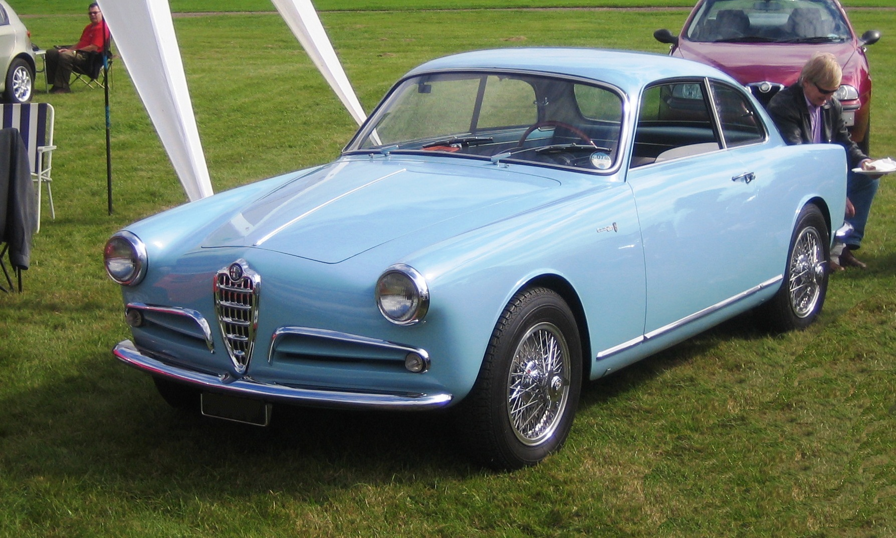 Alfa Romeo Giulietta Coupe at Classic Car Show in Hertfordshire